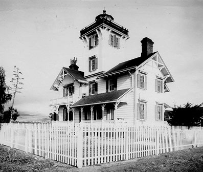 Public Domain statement here; Point Fermin is a lighthouse on Point Fermin in San Pedro, California.